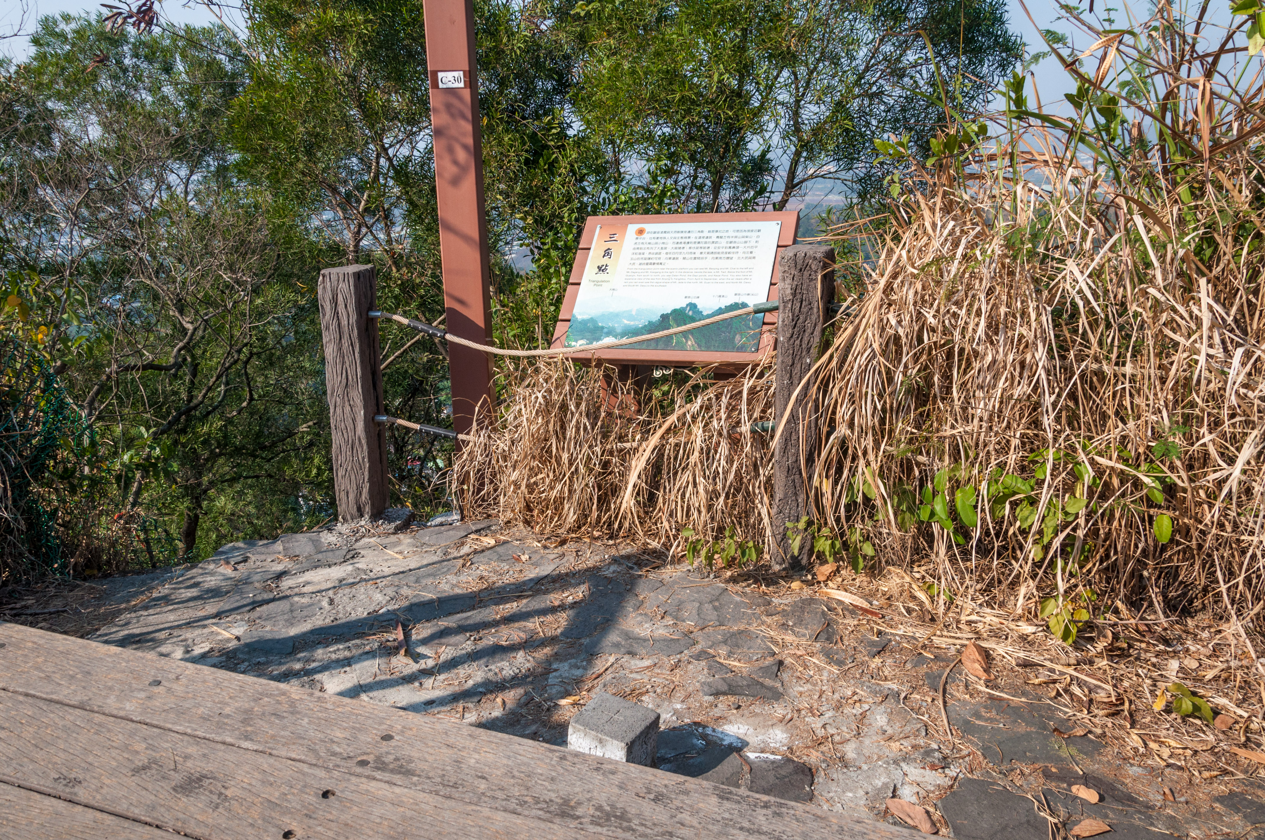 Mt. Guanyin, Dashe District, Kaohisung City, Taiwan.